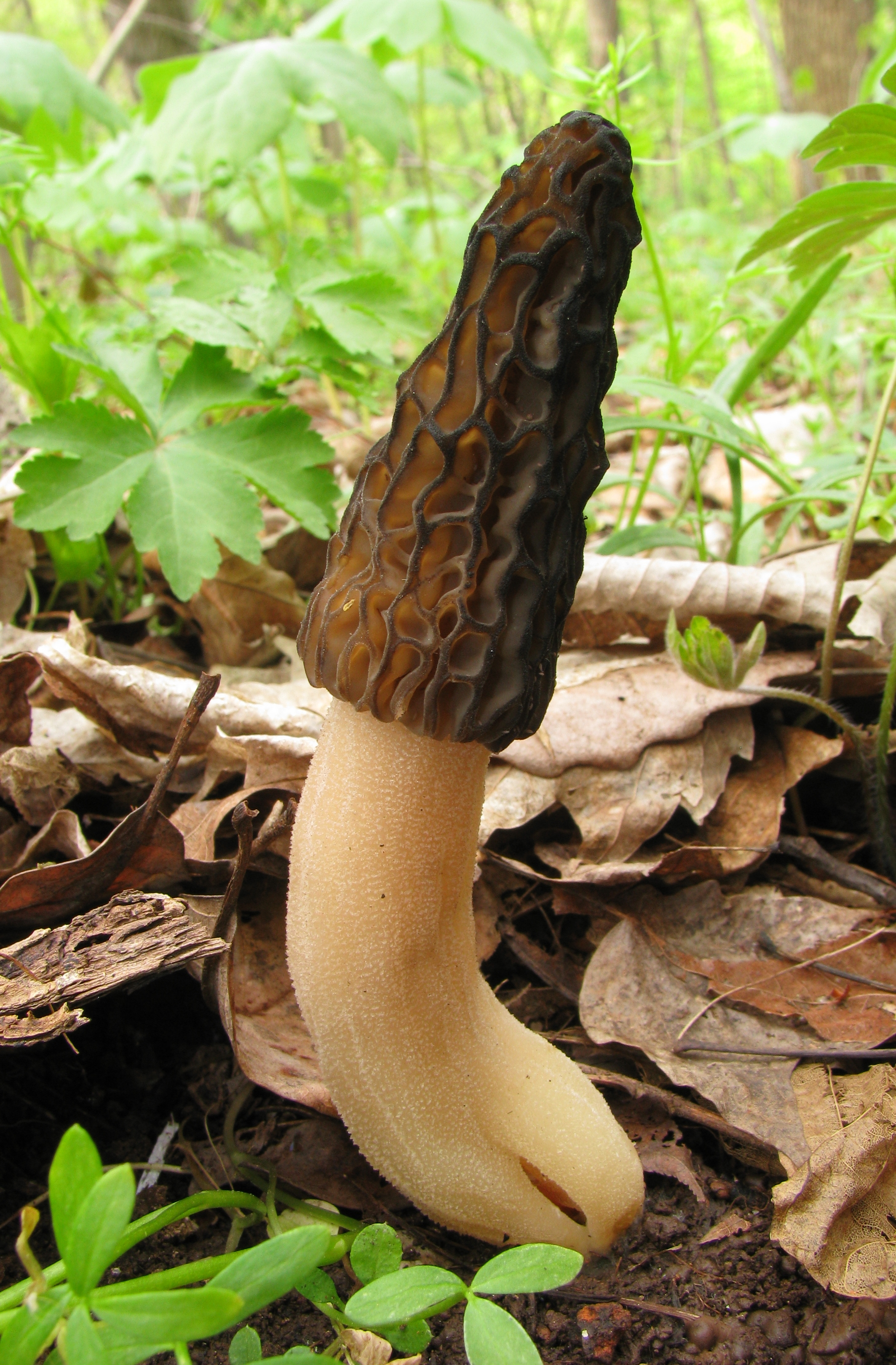 Morchella elata Fr. Location: Wayne National Forest, Athens Co., Ohio, USA Observation Notes: abandon the Name Morchella angusticeps it is clearly confusing and not well described at all. what to call it then? I don’t know……. For more information about this, see the observation page at Mushroom Observer.